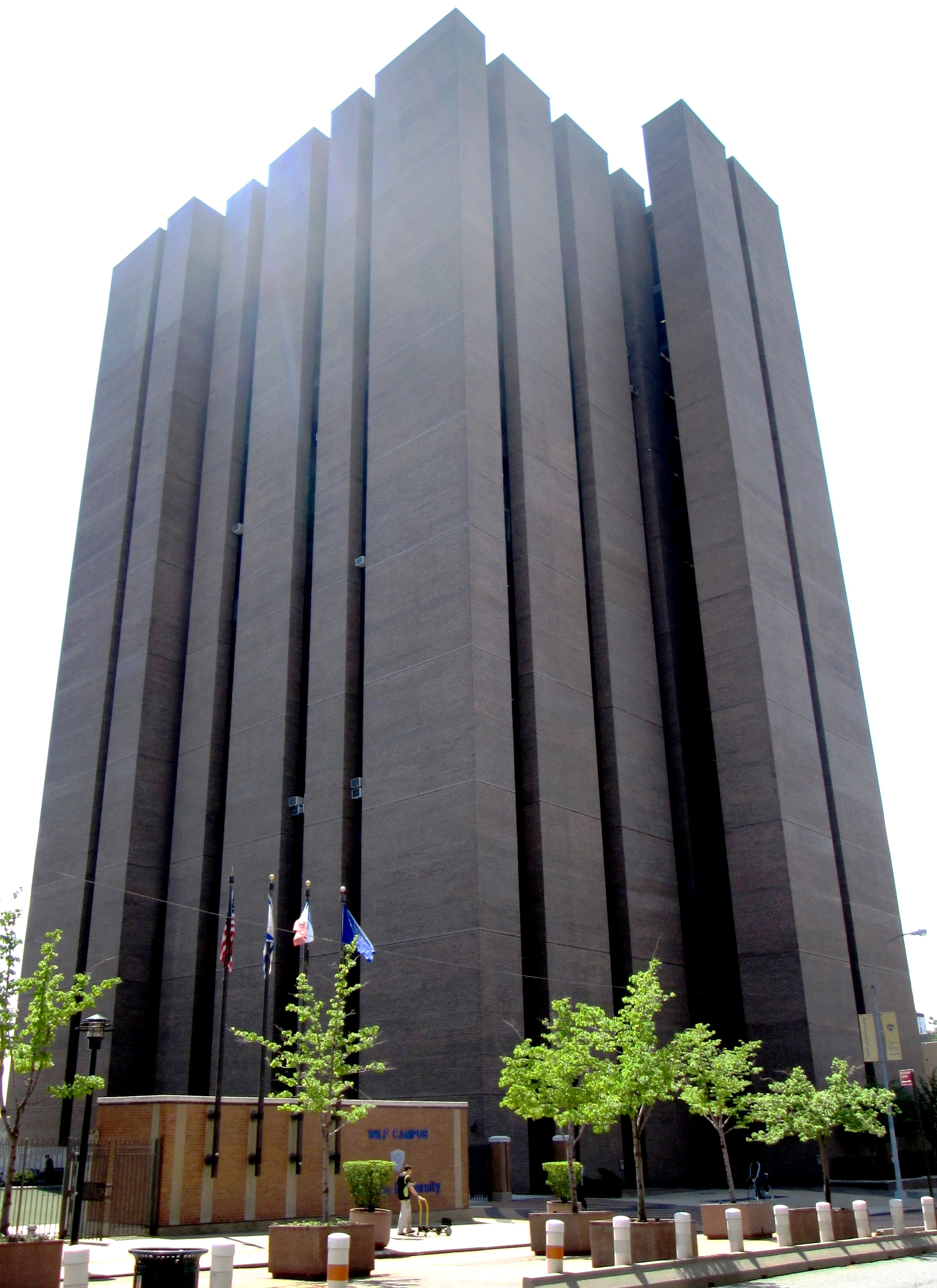 Yeshiva University's Belter Hall, located at 2495 Amsterdam Avenue at West 184th Street in the Washington Heights neighborhood of Manhattan, New York City, was built in 1968 and was designed by Armand Bartos & Assocs. (Source: AIA Guide to NYC (5th ed.))